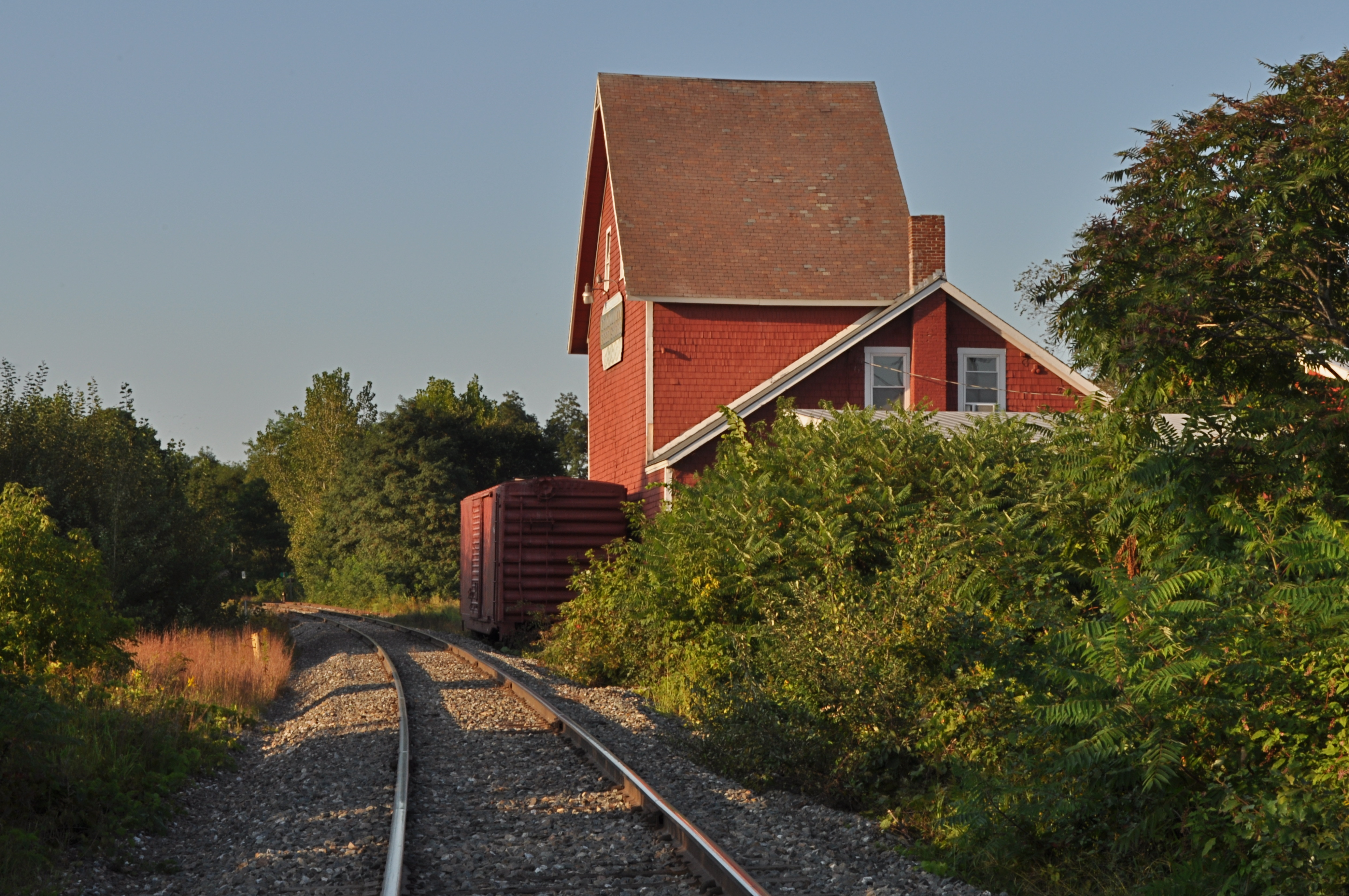 Community Feeds, Westminster, Vermont